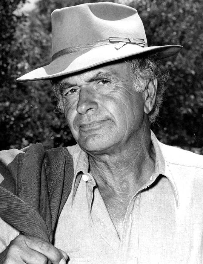 Publicity photo of Noah Beery Jr.